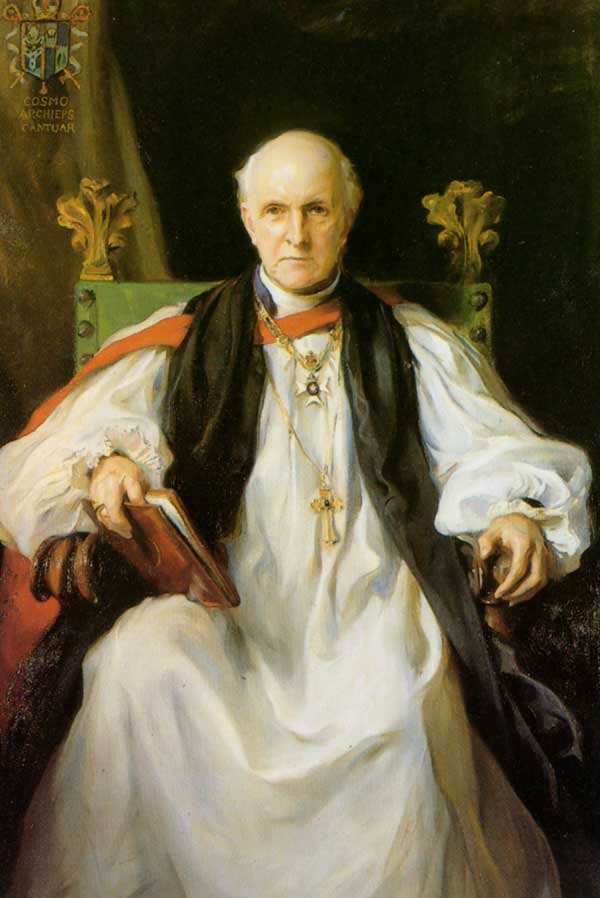 Cosmo Gordon Lang (1864-1945), Archbishop of Canterbury from 1928-1942.